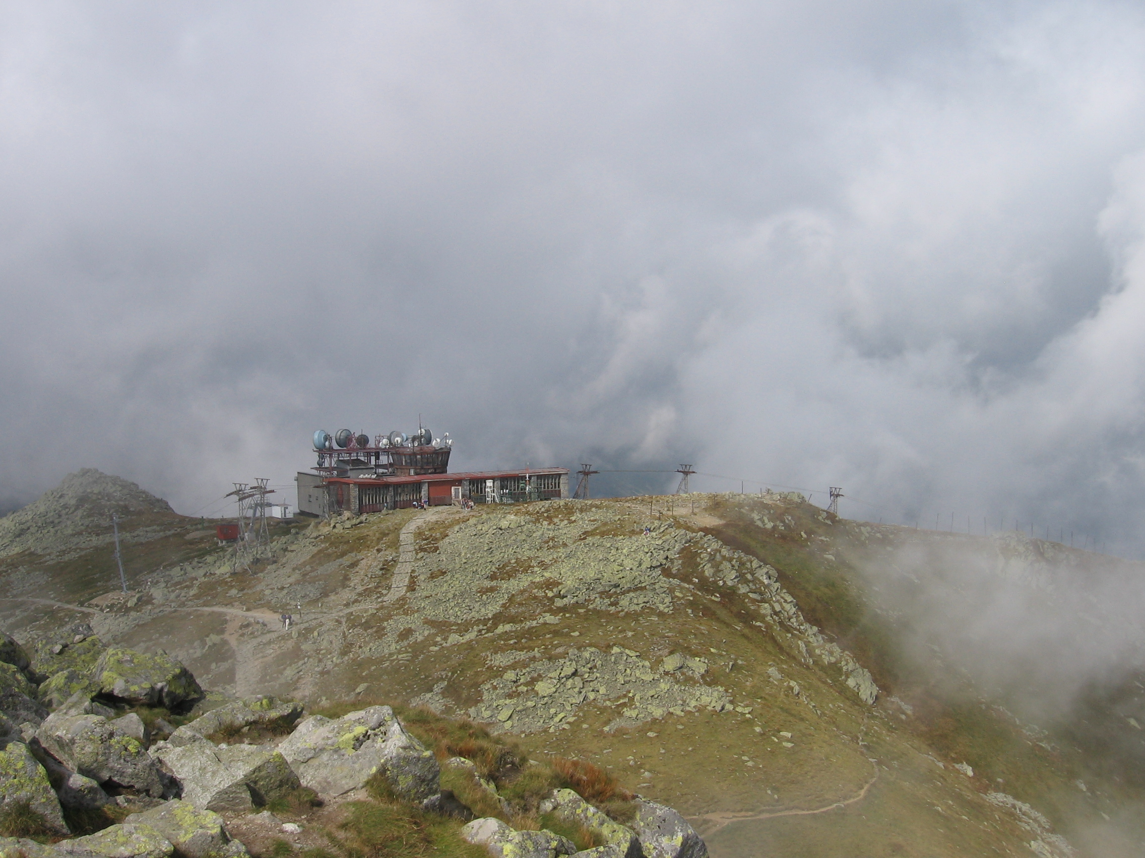 Meterological station on the top of Chopok in Lower Tatras in Slovakia.